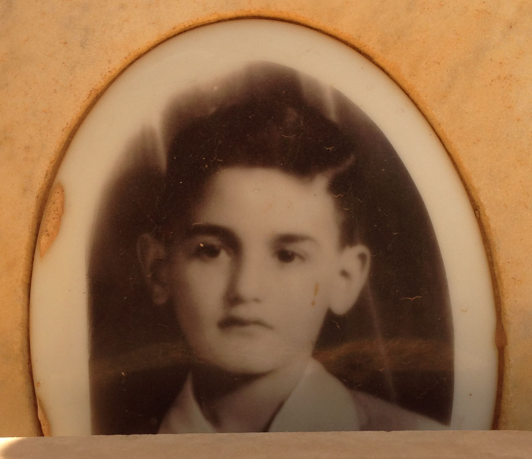 Grave photo of ΓΙΑΝΝΑΚΗΣ ΧΡΙΣΤΟΦΟΡΟΥ, who was born in 1942 and died at the age of 7, in the Greek section of the Christian cemetery in Khartoum, Sudan